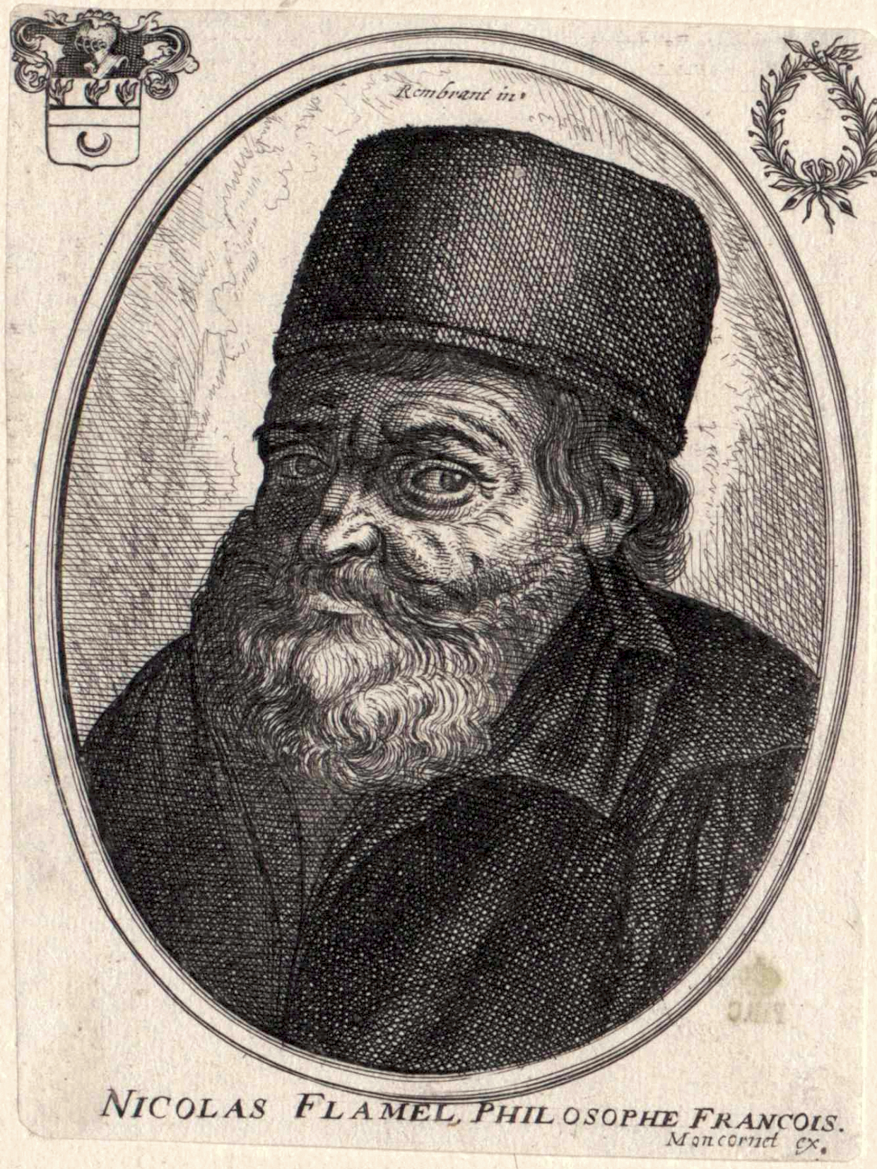 Portrait of Nicolas Flamel (ca 1340-1418)